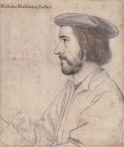 Portrait of Nicolas Bourbon. Black and coloured chalks, pen and ink on pink-primed paper, 38.4 × 28.3 cm, Royal Collection, Windsor Castle. The French poet Nicolas Bourbon (1503–after 1550) met Holbein when the former came to England in 1535 after being imprisoned in France for supporting religious reform. He was welcomed and helped in England by Anne Boleyn, a reformist and a patron of Holbein. This is a preparatory drawing for a painting, now lost. Of the painting, Bourbon wrote: "Hans in painting me was greater than Apelles", referring to the famous painter of Greek antiquity (Susan Foister, Holbein in England, London: Tate, 2006, ISBN 1854376454. p. 53).